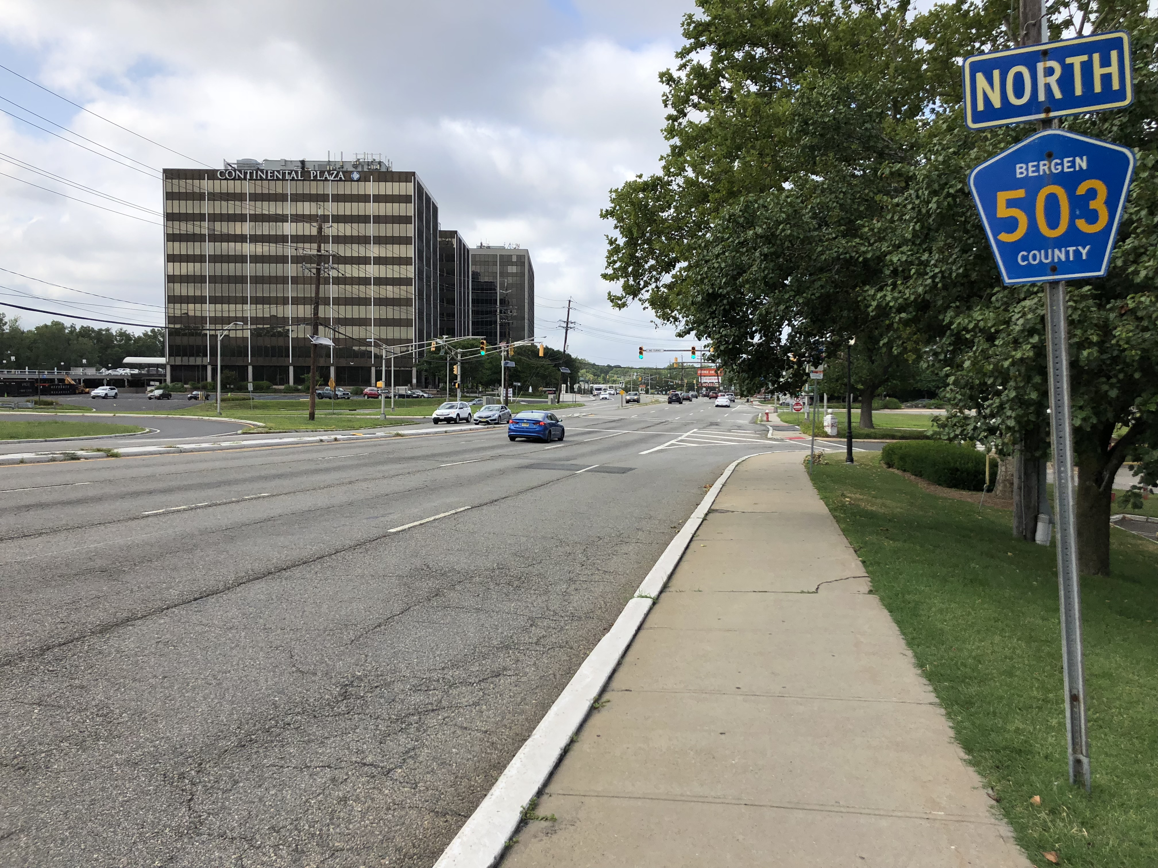 View north along Bergen County Route 503 (Hackensack Avenue) just north of New Jersey State Route 4 in Hackensack, Bergen County, New Jersey